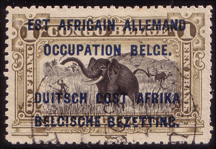 Postage stamp of Belgium Congo overprinted for German Eastafrica occupied by Belgium, 1 franc, 1916Walon: Timbe do Congo bedje ricatchté po siervi dins l' Afrike levantrece almande, ki vneut d' esse ocupêye e 1916